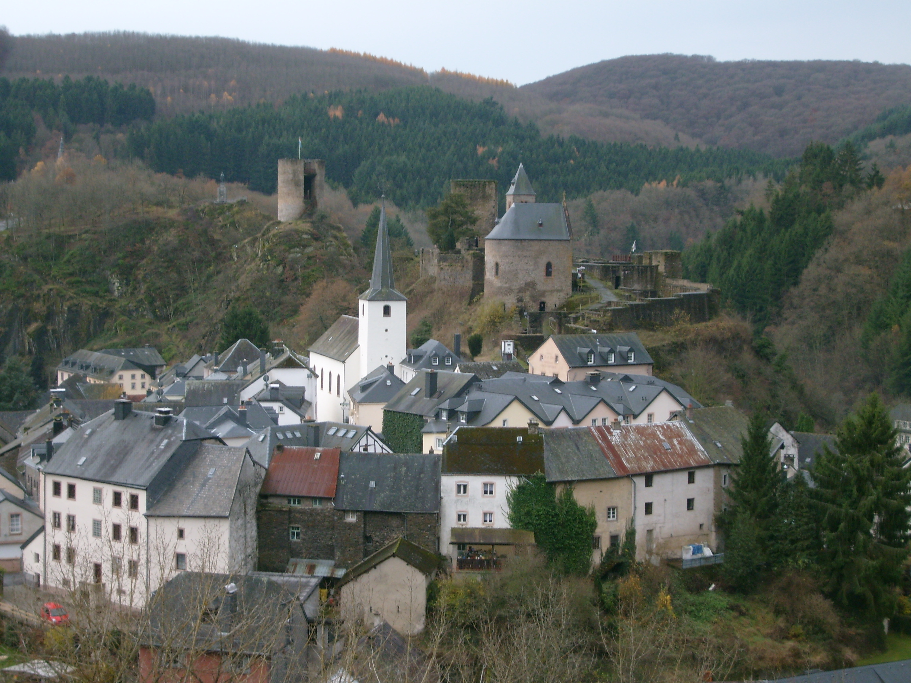 Esch-sur-Sure, vue on the village, castle and church